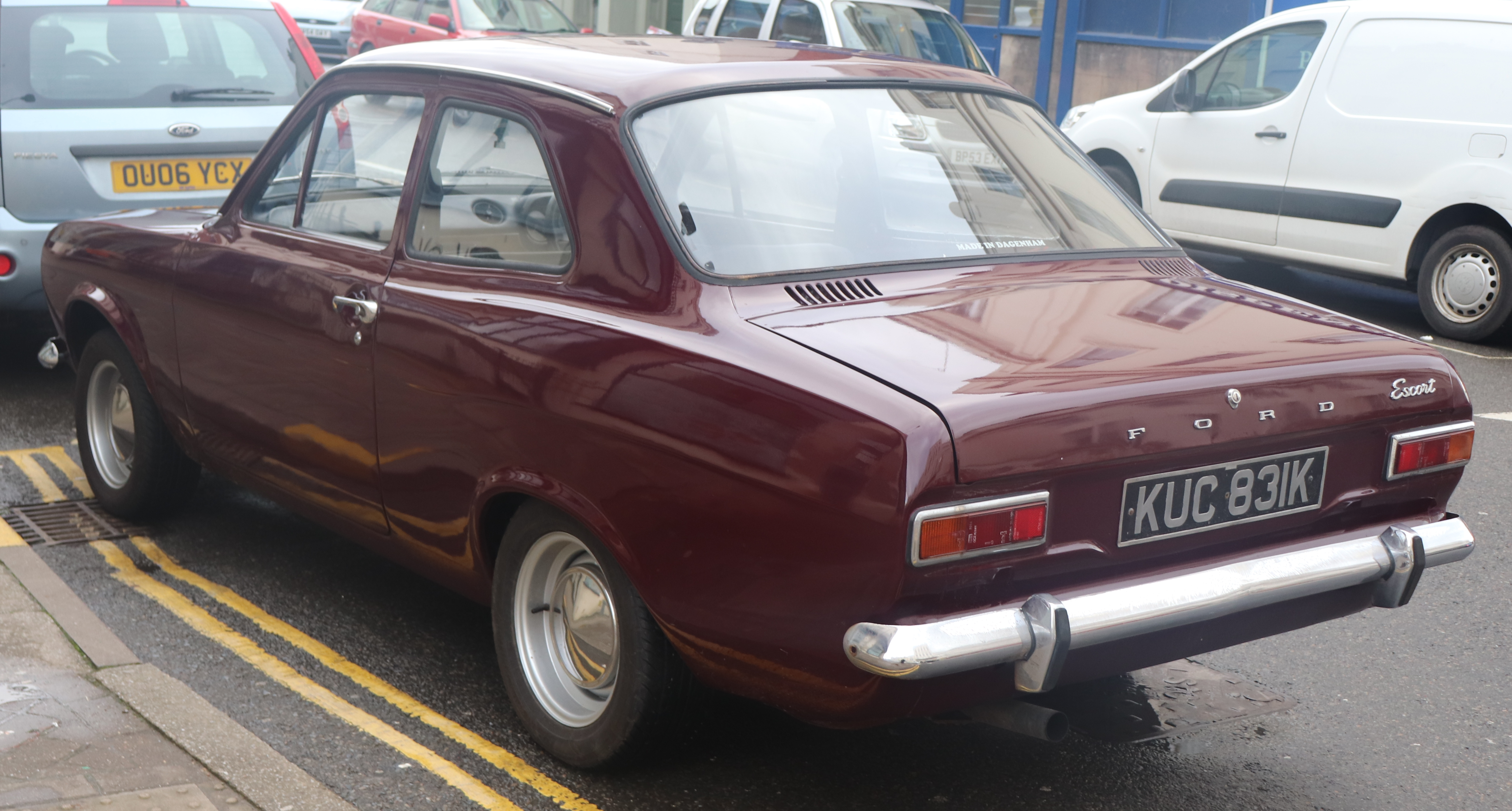 1971 Ford Escort 1300 L Rear (Just done under 24k miles!) Taken in Leamington Spa